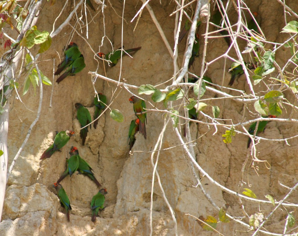 Rose-fronted Parakeets at a clay lick in South America.